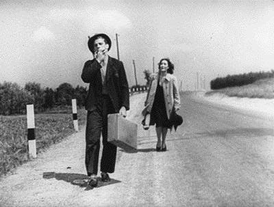 Clara Calamai and Massimo Girotti in Ossessione (1943).